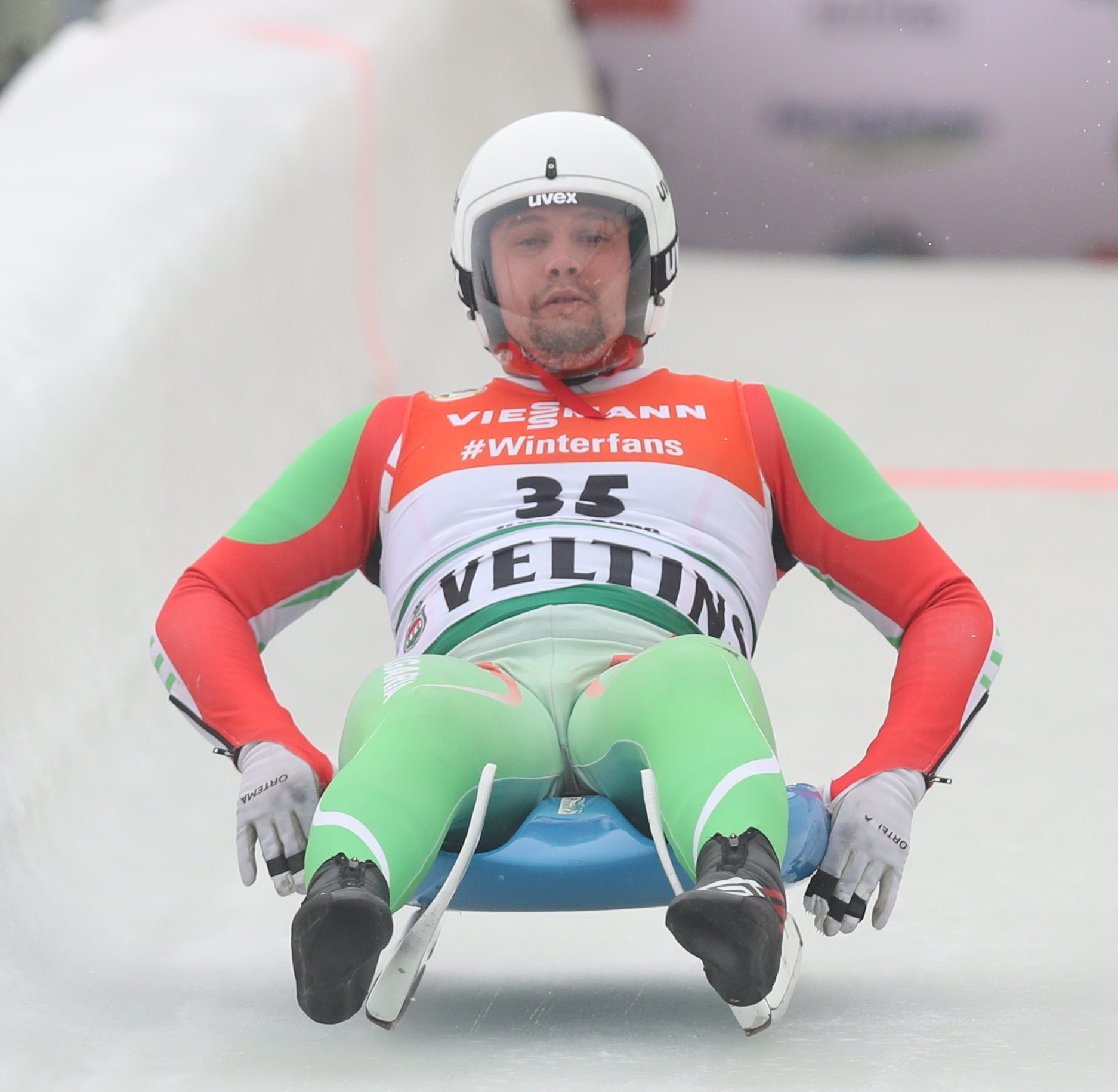 Men's race at the FIL World Luge Championships 2019 in Winterberg